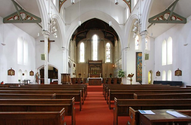 St James, St James's Gardens, Norlands, London W11 - East end